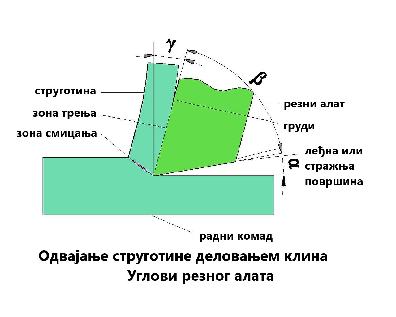 Cutting tool angels. This figure contains labels on Serbian language.